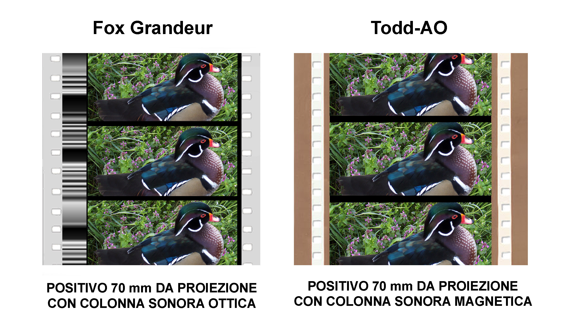 Film formats: Fox Grandeur 70 mm VS Todd-AO 70 mm